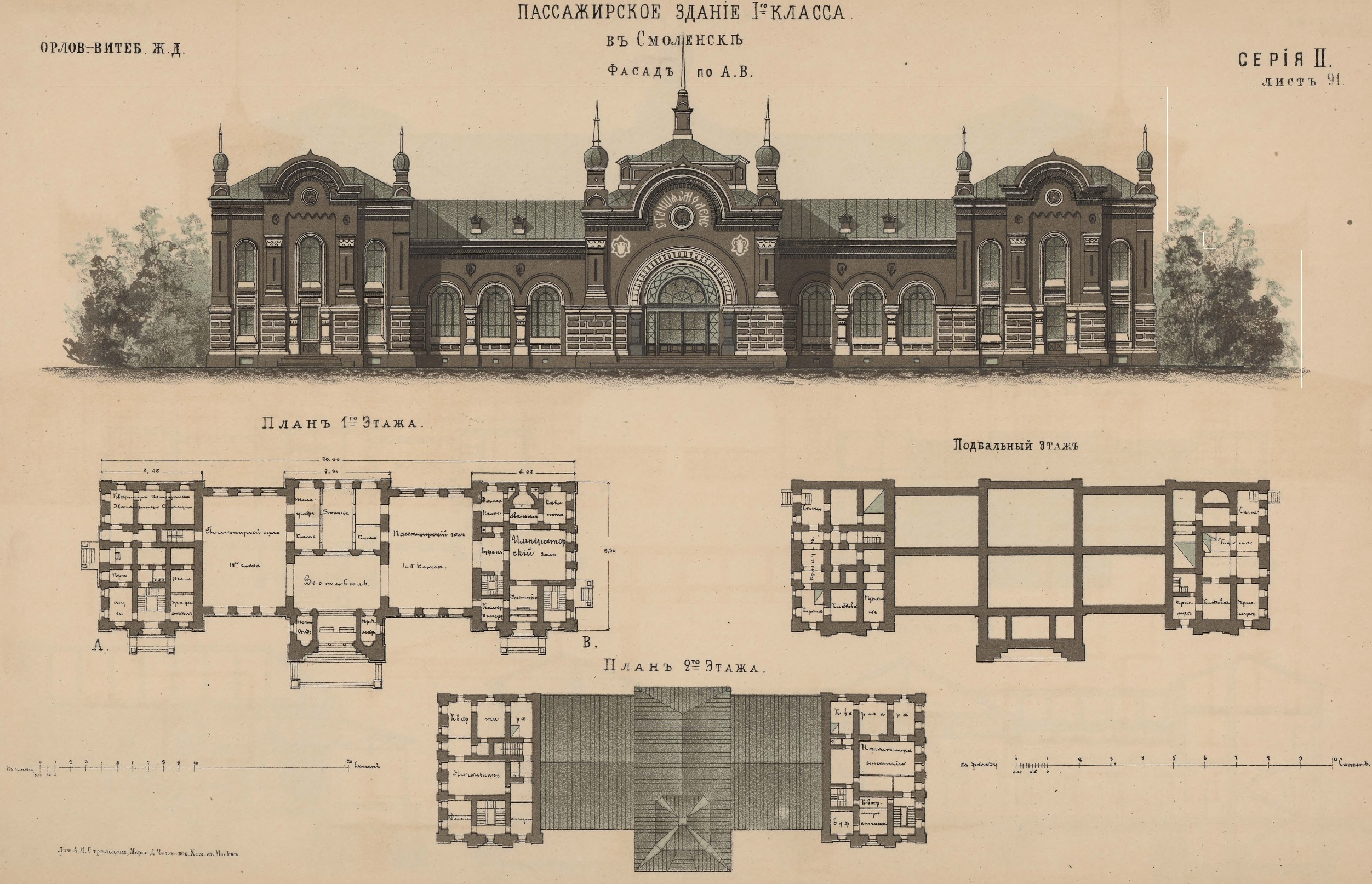 Smolensk station. Oryol-Vitebsk railway. Russian Empire